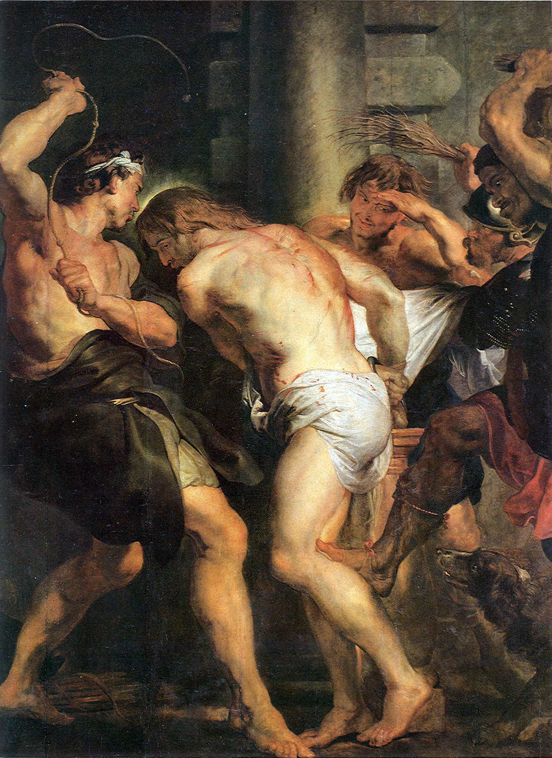 Peter Paul Rubens, Flagellation of Christ, Antwerp, Church of St. Paul.